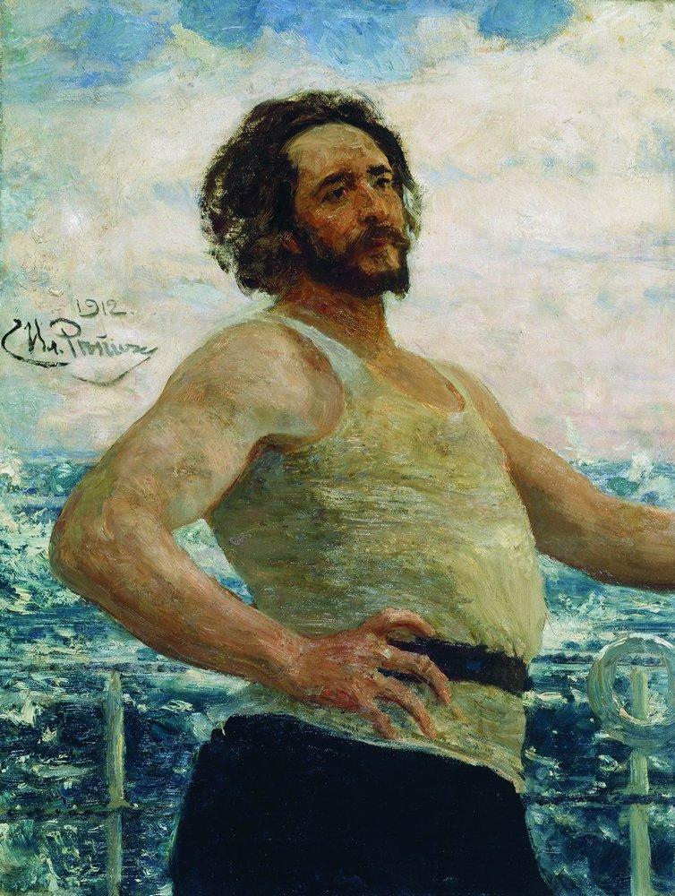 Portrait of writer Leonid Nikolayevich Andreyev on a yacht